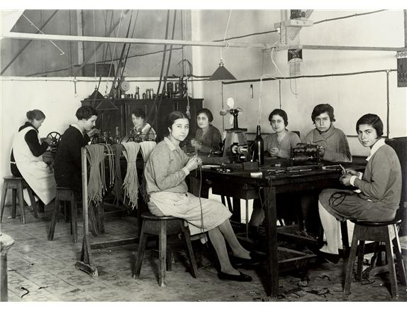 Ericsson established a factory in Getafe in 1924. The picture shows a group of female workers manufacturing telephone lines